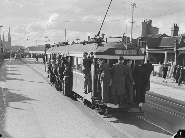 An overcrowded East Preston tram with tram surfers moving along a street in a suburb of Melbourne